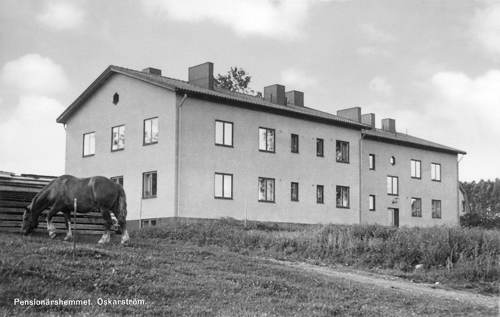 The retirement home in Oskarström, with a grazing horse nearby. Pensionärshemmet i Oskarström, med en betande häst in närheten. Parish (socken): Enslöv Province (landskap): Halland Municipality (kommun): Halmstad County (län): Halland Photograph by: Unknown. Almquist & Cöster Date: 1940-1959 Format: Cliché, film with text Persistent URL: Read more about the photo database (in english)